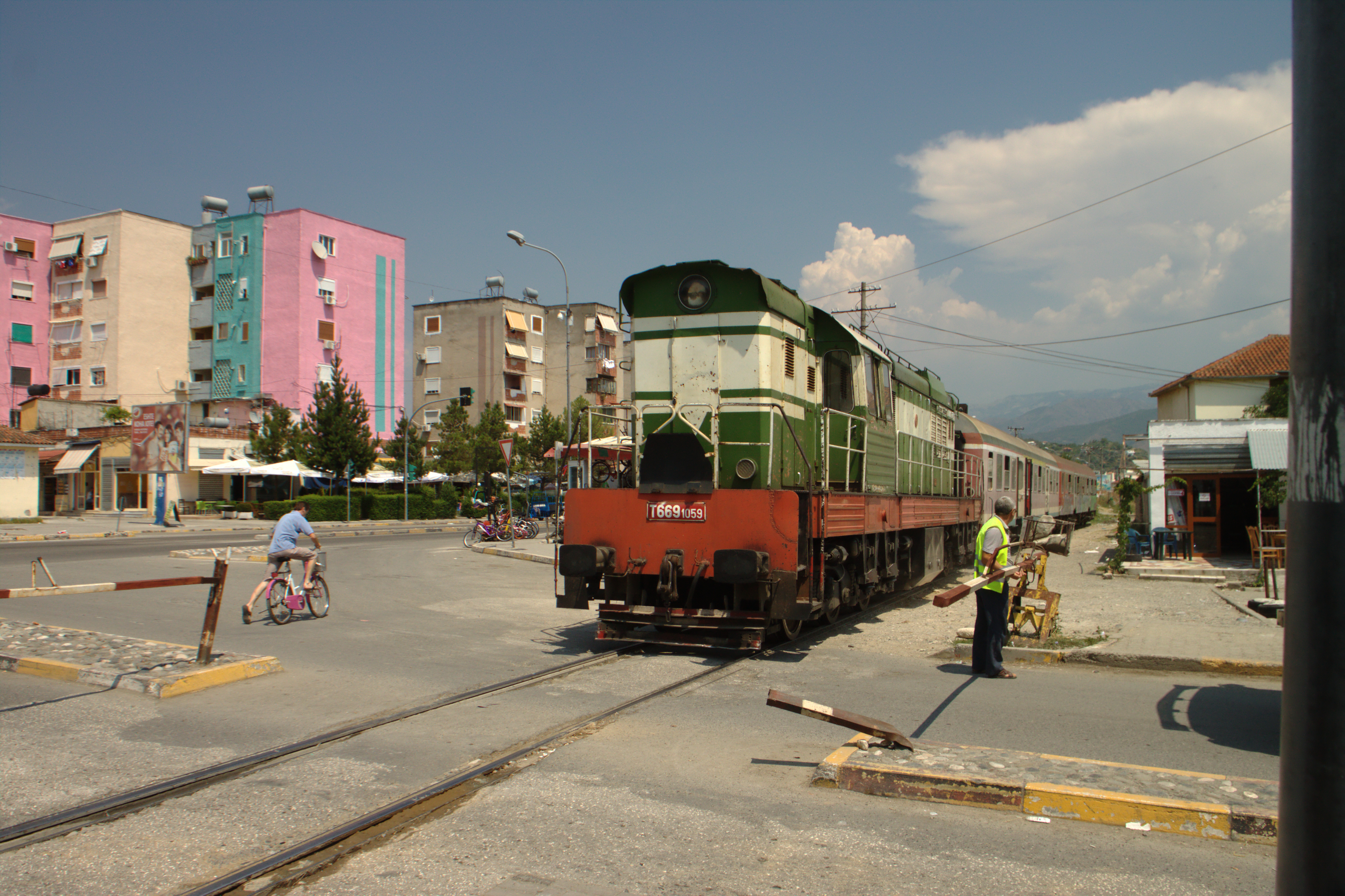 A passenger train crossing a road in Elbasan, Albania